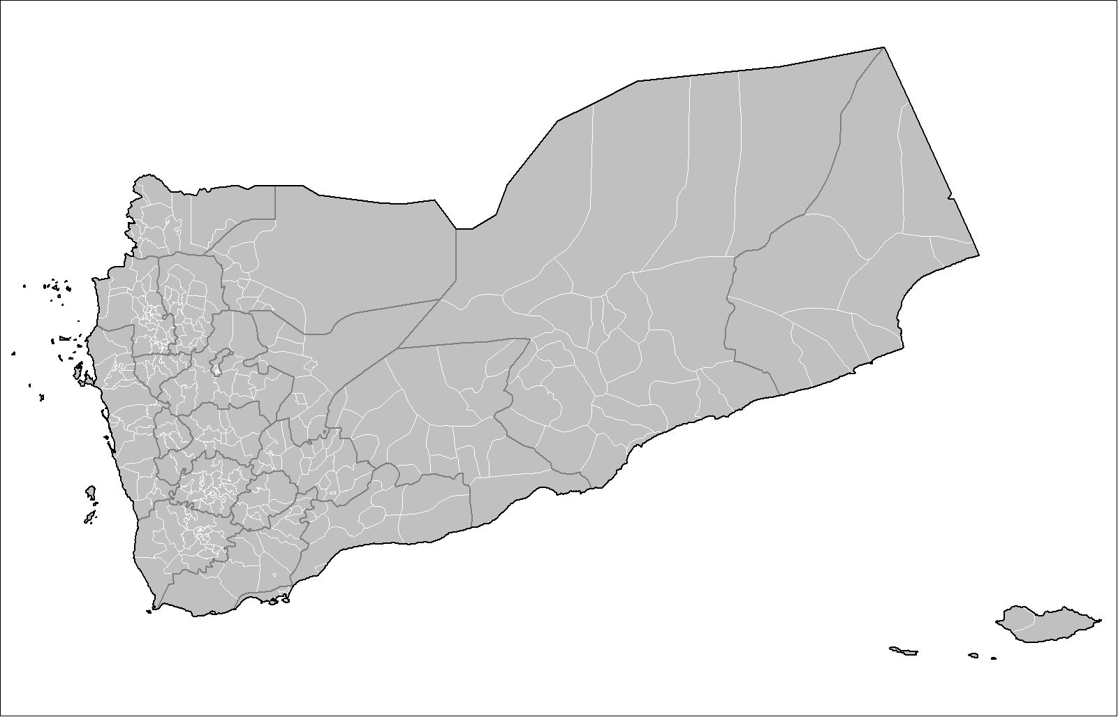 Map of the districts of Yemen. Created by Rarelibra 23:01, 15 November 2007 (UTC) for public domain use, using MapInfo Professional v8.5 and various mapping resources.